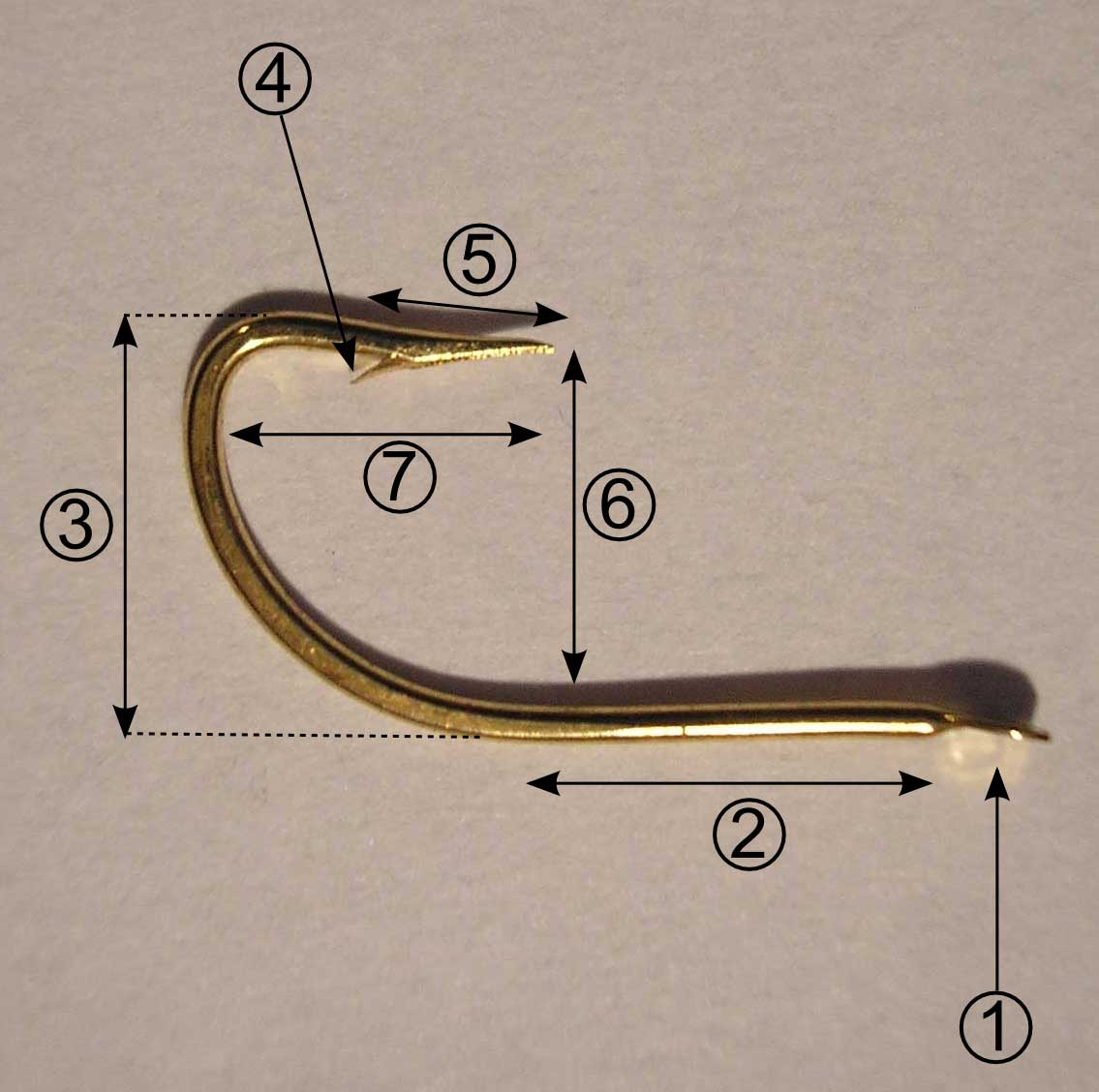 Anatomy of a fishing hook